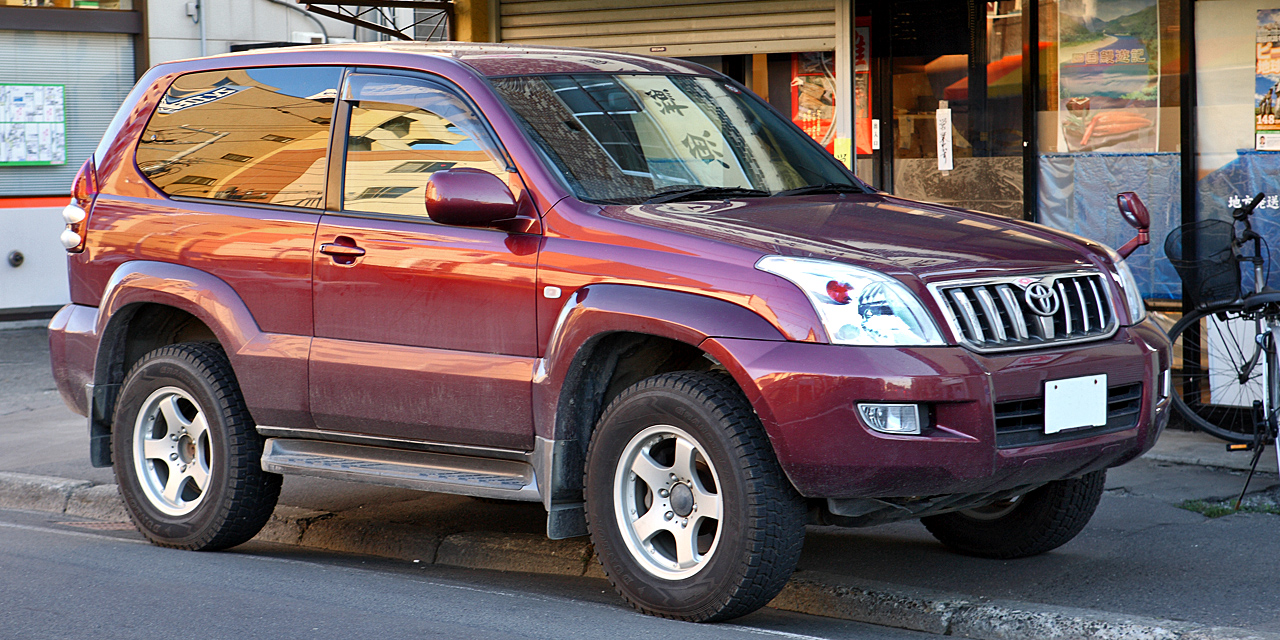 Toyota Land Cruiser 120 Prado RX